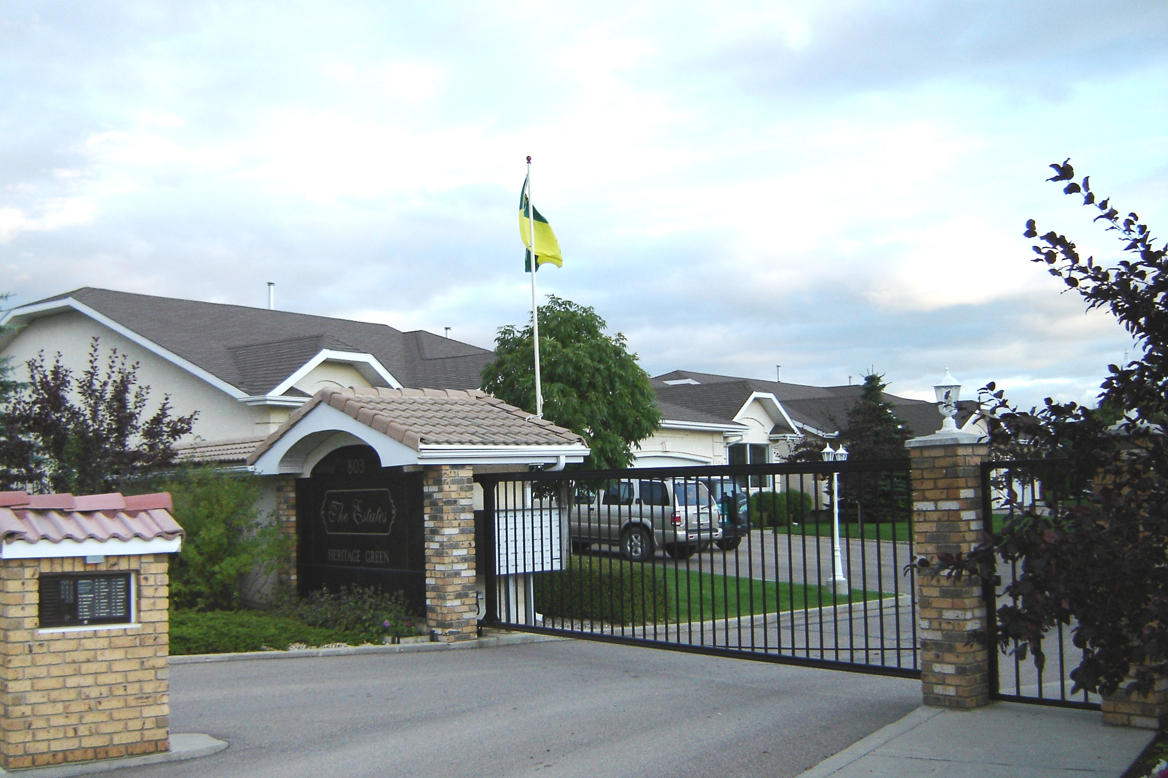 Entrance to a guarded gated community (Location: Saskatoon, Saskatchewan, Canada)